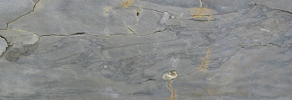 Tempestite in Silurian dolostone (Western-Estonia)